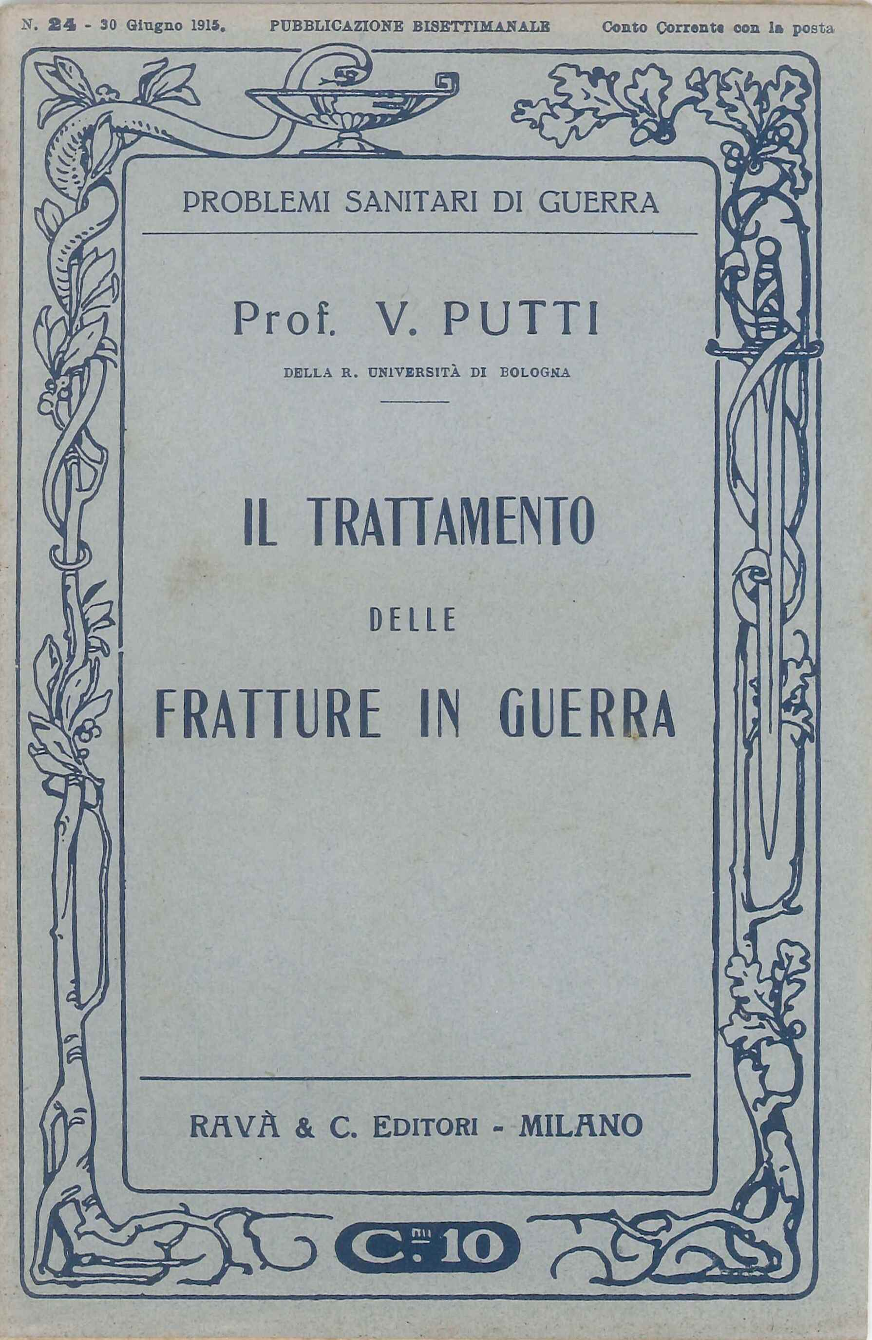 cover of a 1915 publication